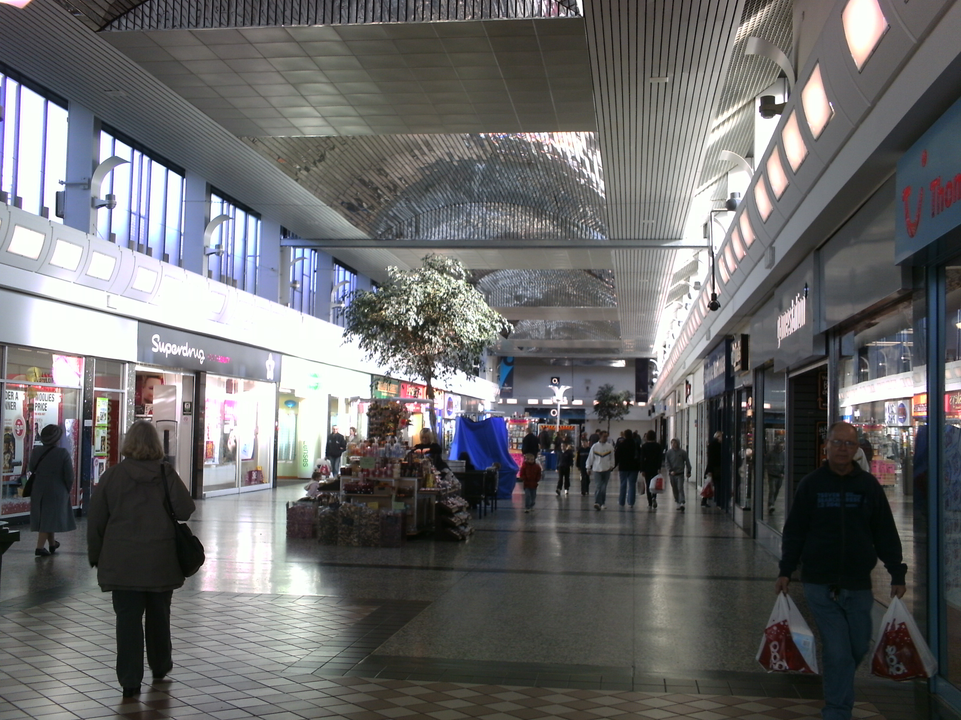 The interior of the Cross Gates Centre, Leeds